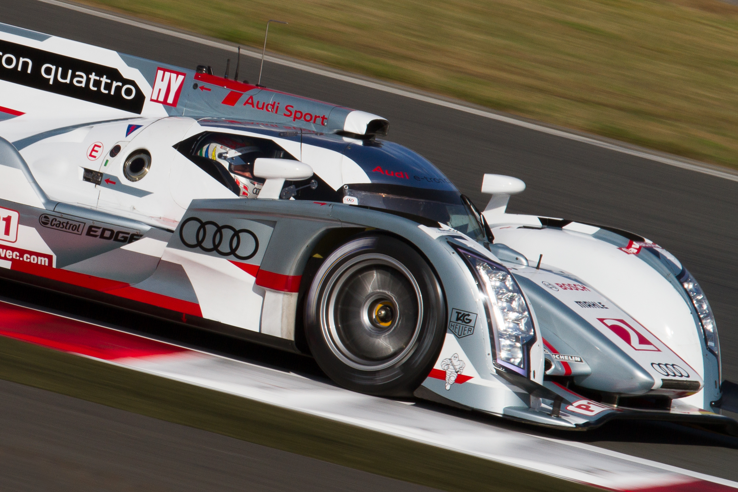 FIA World Endurance Championship 2012 Rd.7 6 Hours of Fuji: #2 Audi R18 e-tron quattro (Audi Sport Team Joest), driven by Tom Kristensen.